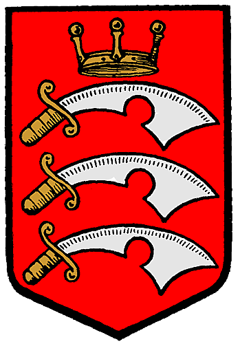 Arms of Middlesex County Council. Source: A.C. Fox-Davies (1871 – 1928), The Book of Public Arms (T. C. & E. C. Jack, London, 1915)